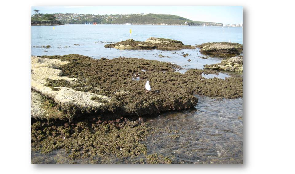 An image of a dense aggregate of the sea squirt (ascidian) Pyura praeputialis on a rock platform in Balmoral Beach, Sydney.